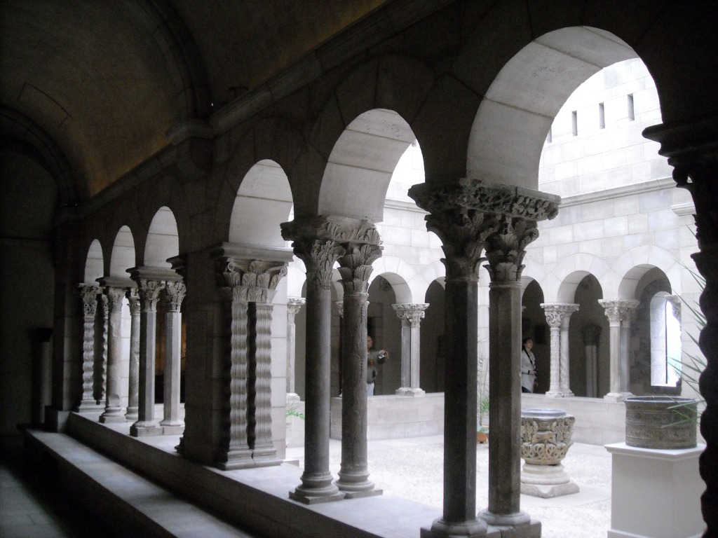 Fort Tryon Park and the Cloisters, Broadway and Dyckman St. New York